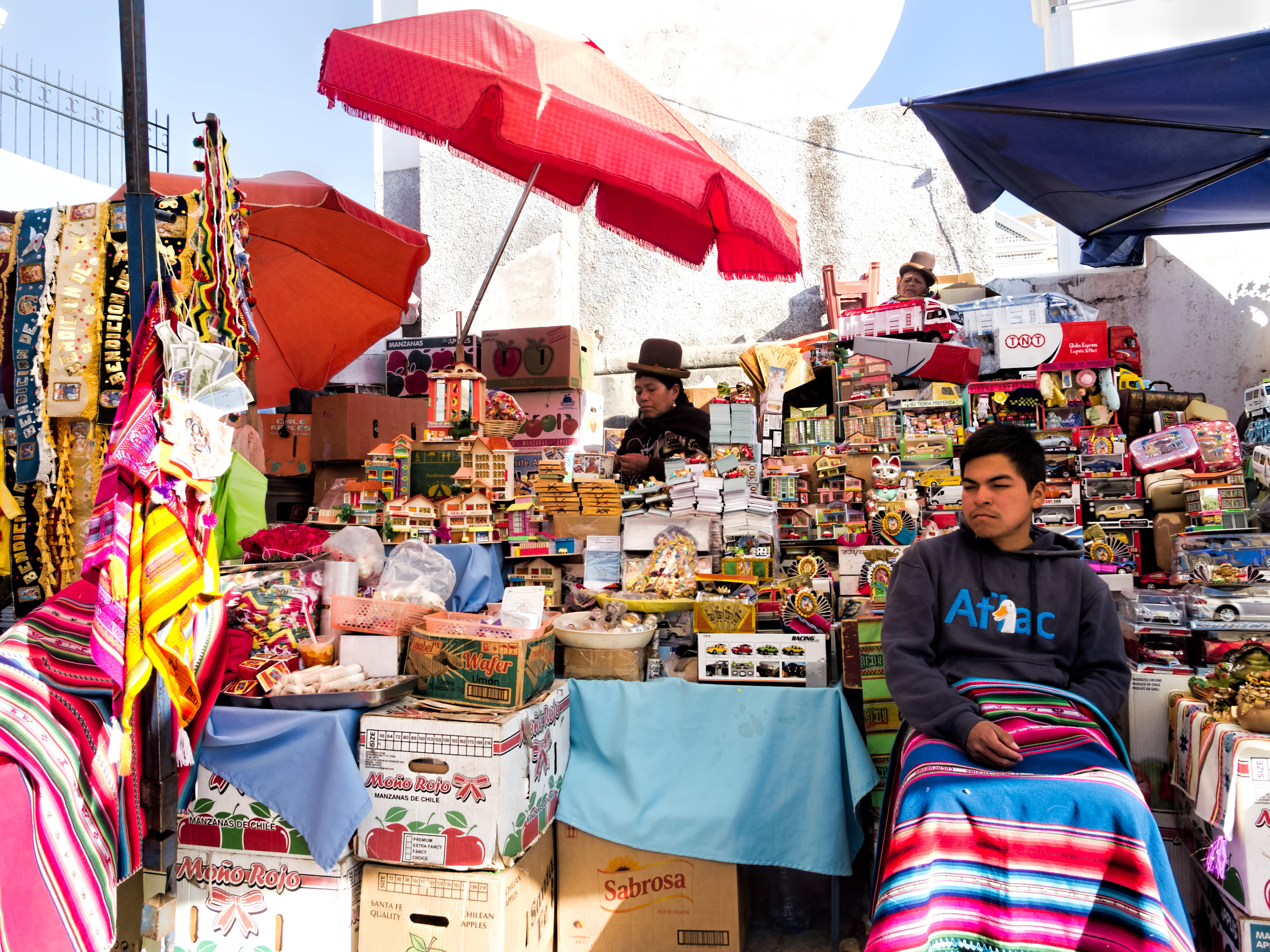 In front of the cathedral, vendors sell symbolic offerings to represent what a person wants to ask the Virgin for: house, car, money, etc. The women in the background wear the bowler hats of the Aymara. The Basilica of Our Lady of Copacabana is a 16th-century Spanish colonial shrine. It houses the Virgin [Mary] of Candelaria (Virgen de Candelaria) statue carved out of wood by an Incan emperor’s grandson, Francisco Tito Yupanqui, in 1581. The statue has Incan features. Many cures and miracles have been attributed to the statue, including Bolivian independence in 1825. Our Lady of Copacabana is the patron saint of Bolivia. Construction of the current Basilica began in 1668. Although inaugurated in 1678, it was not completed until 1805. [Brazilian pilgrims returning home got caught in a storm at sea, prayed to the Virgin, landed safely on the Brazilian shore, and called the spot Copacabana in gratitude.] On the shore of Lake Titicaca, Copacabana was an Inca outpost and place of worship prior to the arrival of the Spanish in 1534. The Basilica was built where once stood the main temple to Kotakawana, the god of fertility in ancient Andean mythology who was believed to live in Lake Titicaca. Lake Titicaca (elev. 3,812m/12,507ft) on the border of Peru and Bolivia in the Andes is the largest alpine lake in the world and the largest lake in South America. On Google Earth: Cathedral 16° 9’58.77”S, 69° 5’7.61”W